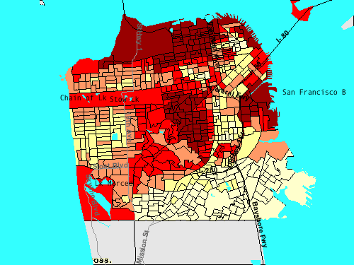 This image is a self-generated thematic map from the U.S. Census Bureau's American Factfinder at by Wikipedia user Stevey7788.